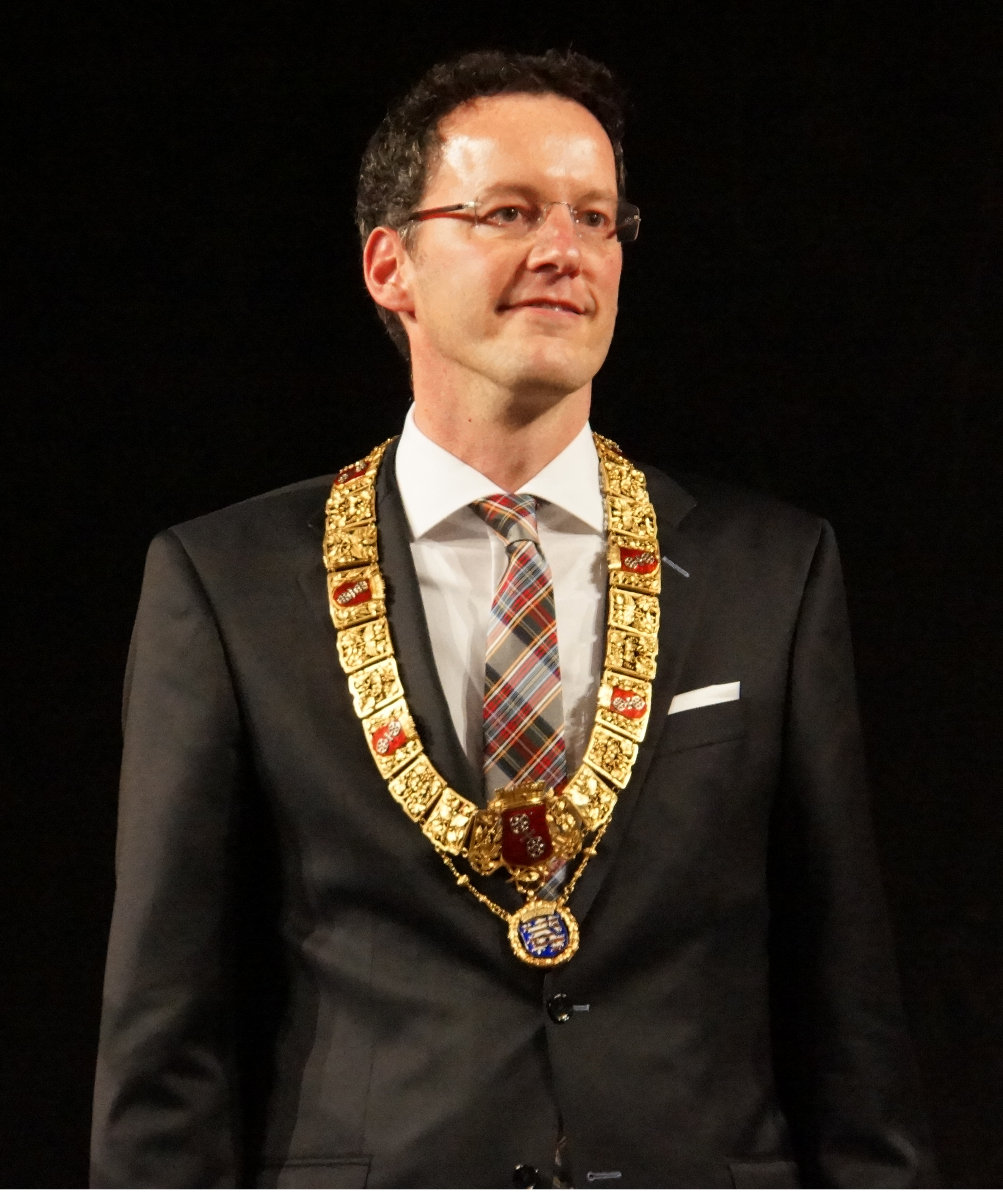 Michael Ebling, Lord Mayor of Mainz